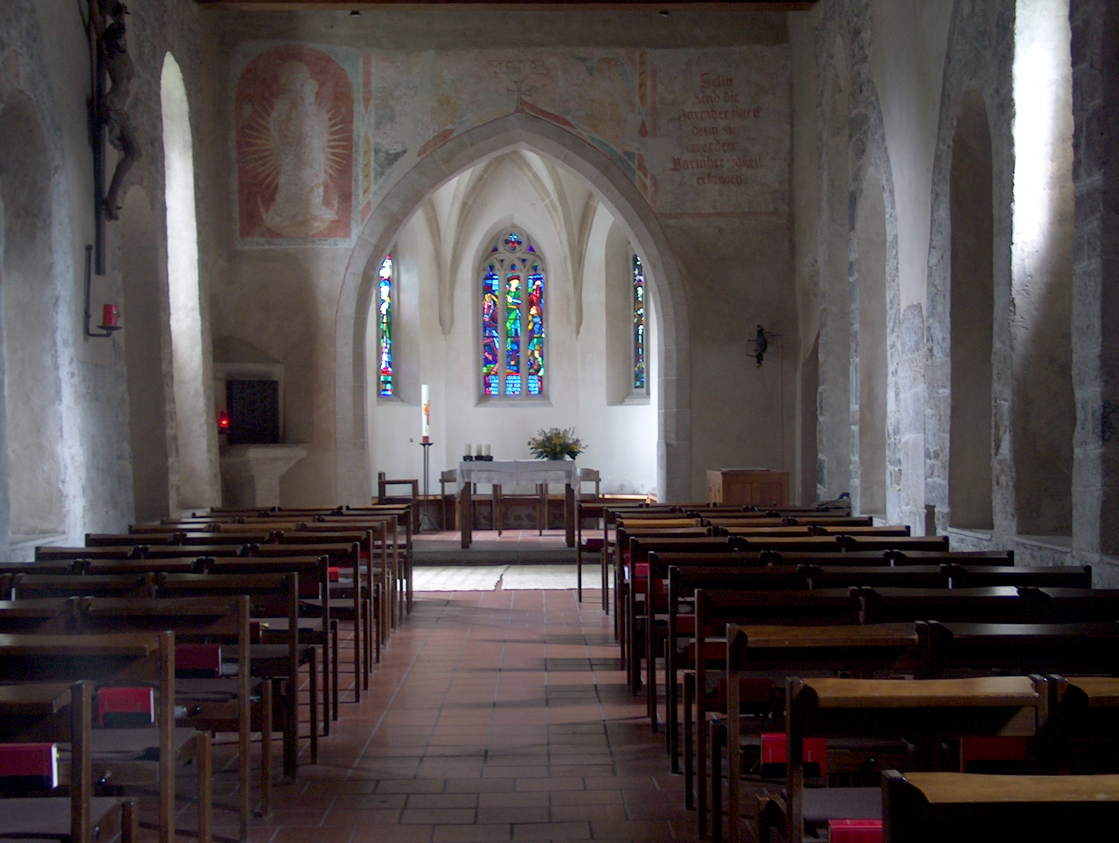 Linz - Martinskirche - Interior